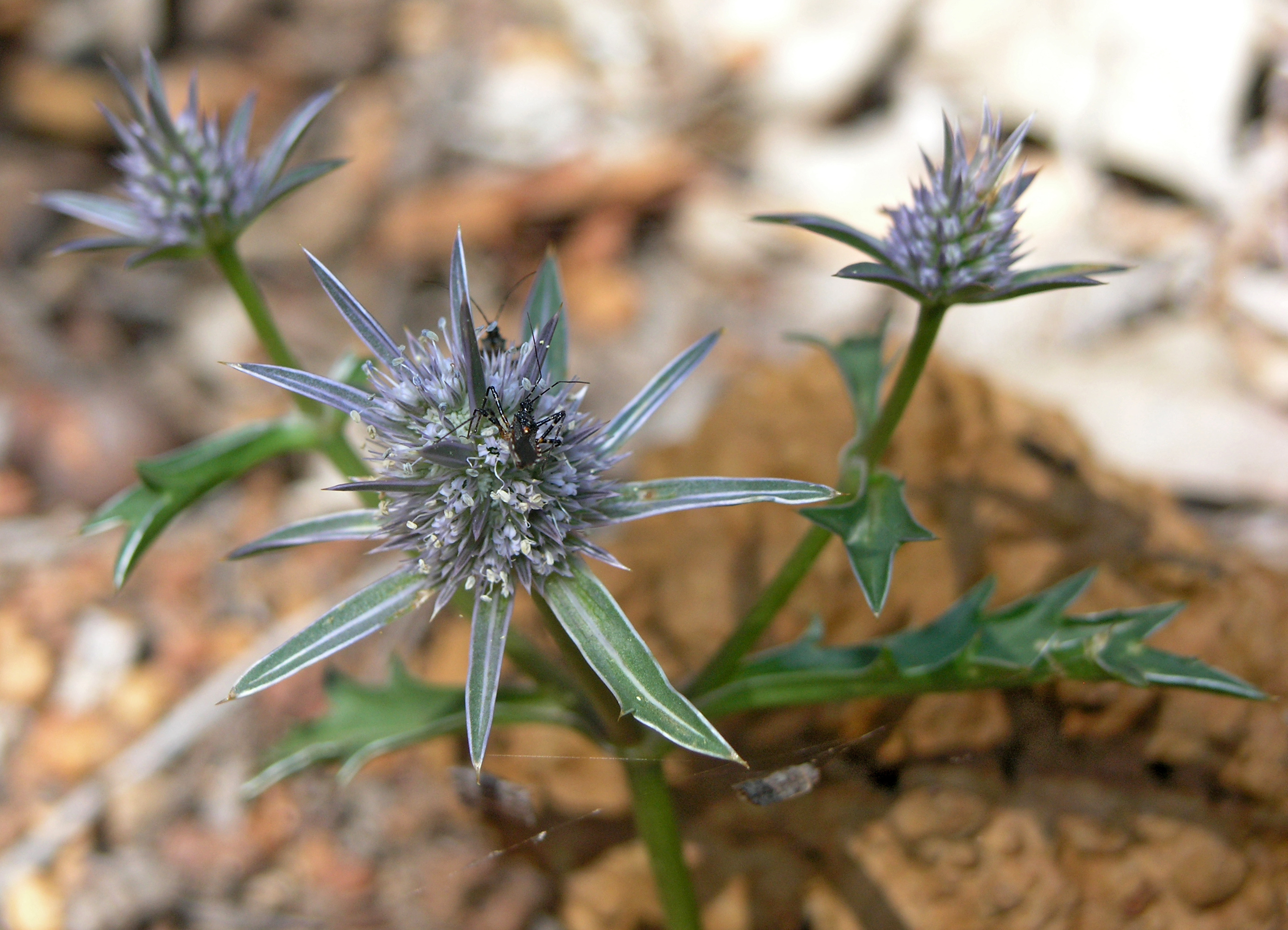 Unknown flower taken on a bush walk, Jarrahdale, Perth, Western Australia. I will post more information about the flower if I can find out more. [Eryngium pinnatifidum]